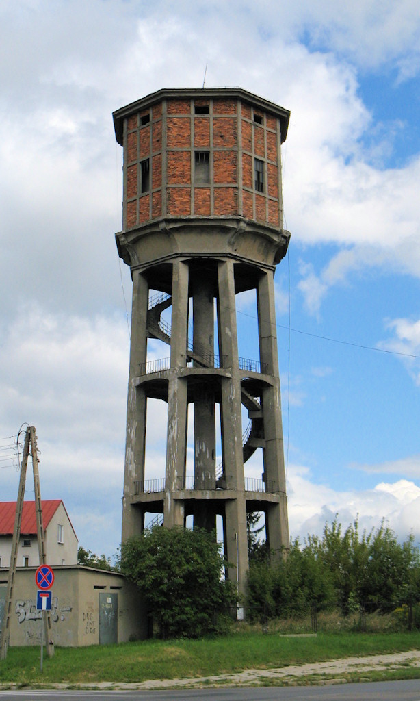 Monumental water-tower in Łomża, Poland